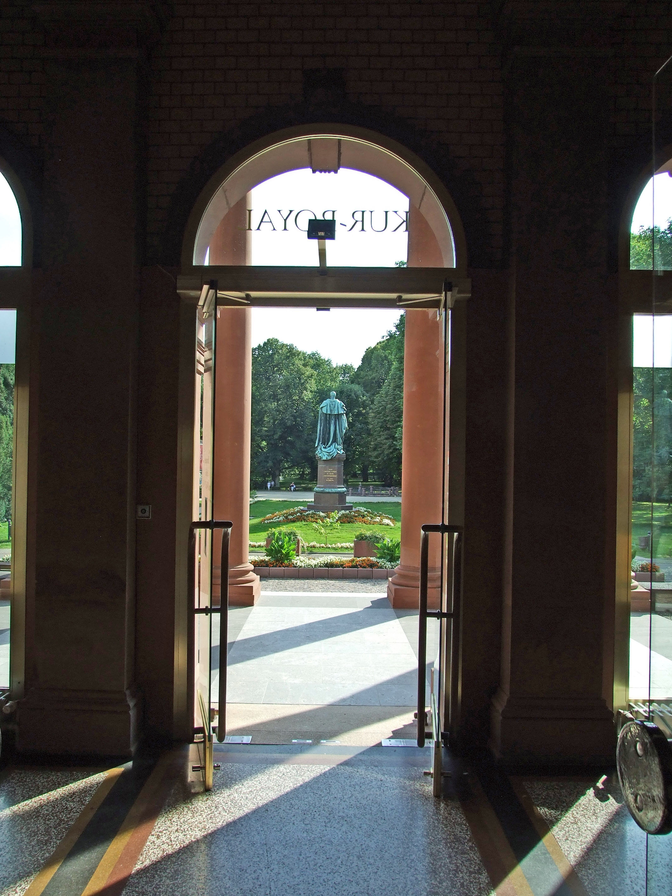 Entrance of the "Kaiser Wilhelms Bad" at the "Kurpark" of Bad Homburg, Hesse, Germany